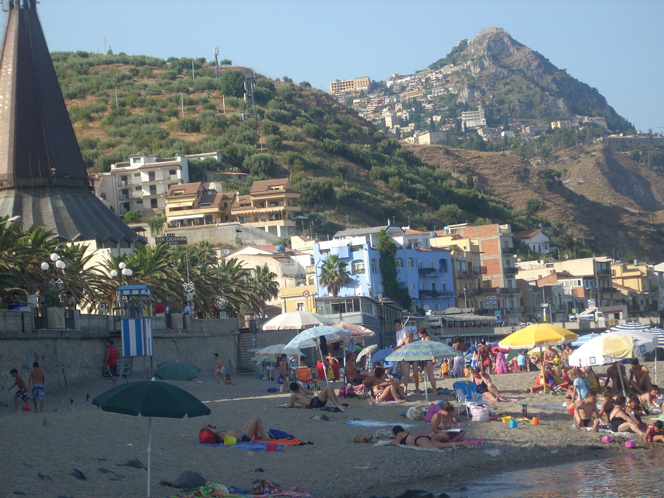 St. John's beach at Giardini Naxos